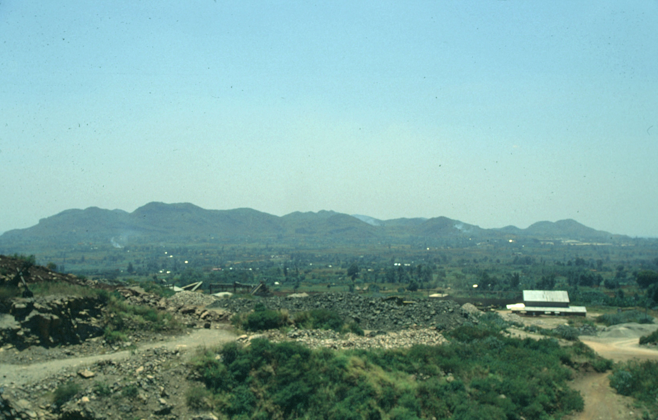 The Carbonatite Complex of Sukulu, Uganda. Seen from Tororo Rock